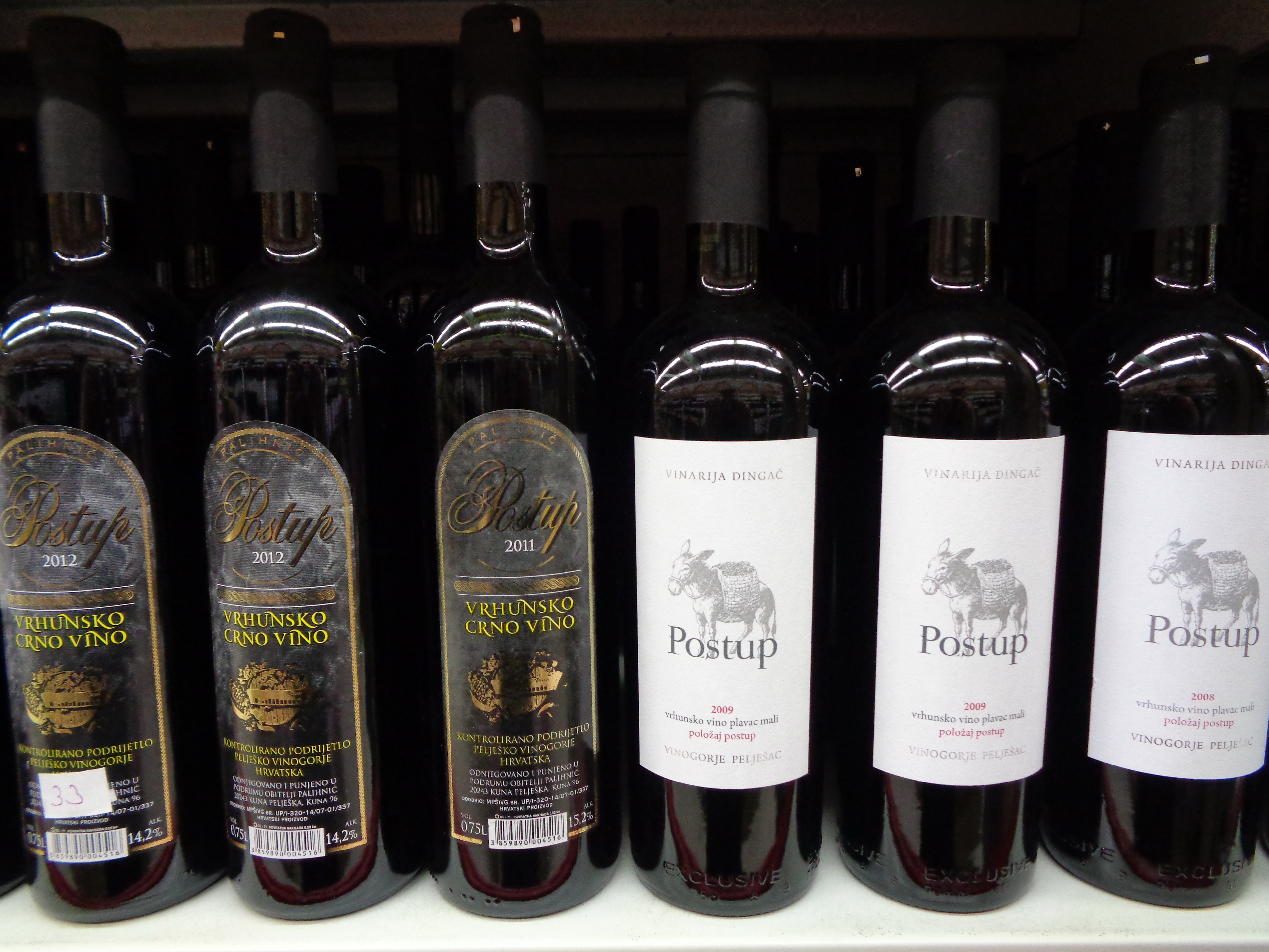 Bottles of Postup wine, autochthonous superior quality red wine, produced in Postup area, Pelješac peninsula, Dubrovnik-Neretva County, southern Croatia